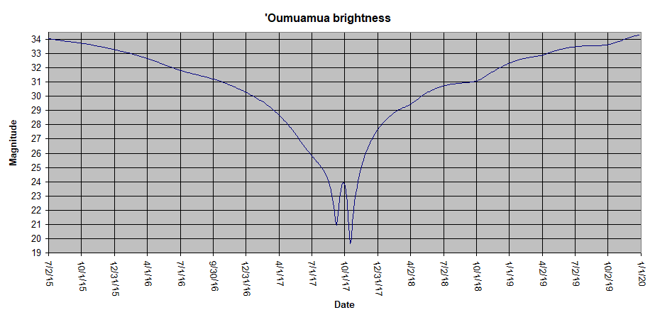 Apparent magnitude of Oumuamua between 2015-2020. Generated from from JPL Horizons, plotted in Excel